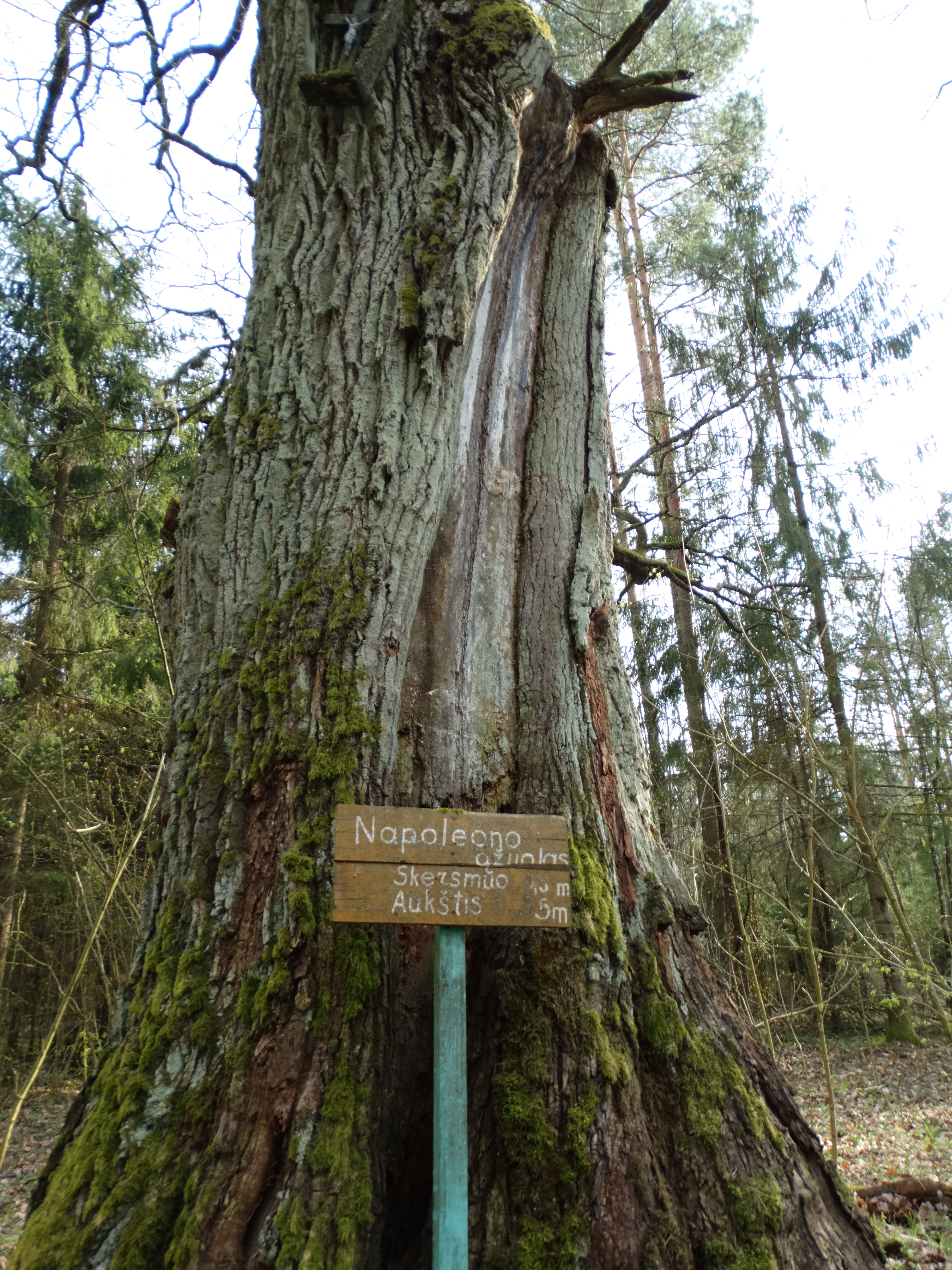 Napoleon Oak, trunk, near Keižonys, Jonava district, Lithuania